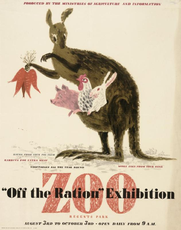 off the Ration' Exhibition - Regents Park Zoo whole: the image is positioned in the upper half with a line of red text at the top. Text, in red and black, is placed at the bottom with small lettering immediately beneath the image and the main title superimposed over large red lettering. image: a large brown kangaroo holding a bunch of carrots. A pink pig, a black and white speckled chicken and a white rabbit look out from it's pouch. text: PRODUCED BY THE MINISTRIES OF AGRICULTURE AND INFORMATION BACON FROM YOUR PIG CLUB RABBITS FOR EXTRA MEAT VEGETABLES ALL THE YEAR ROUND MORE EGGS FROM YOUR HENS "Off the Ration" Exhibition REGENTS PARK ZOO AUGUST 3RD TO OCTOBER 3RD - OPEN DAILY FROM 9 A.M.